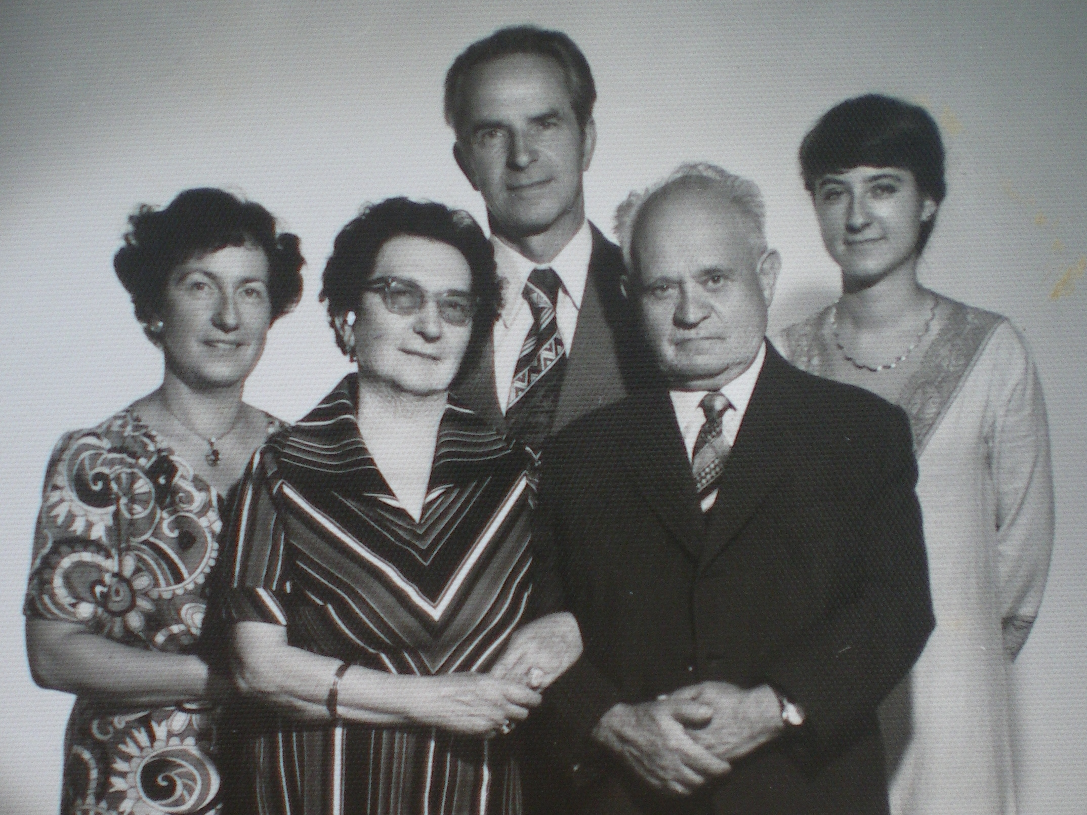 left to right: Maria Stańska, Stanisława Skopowska, Mieczysław Stański, Czesław Skopowski, Ewa Stańska